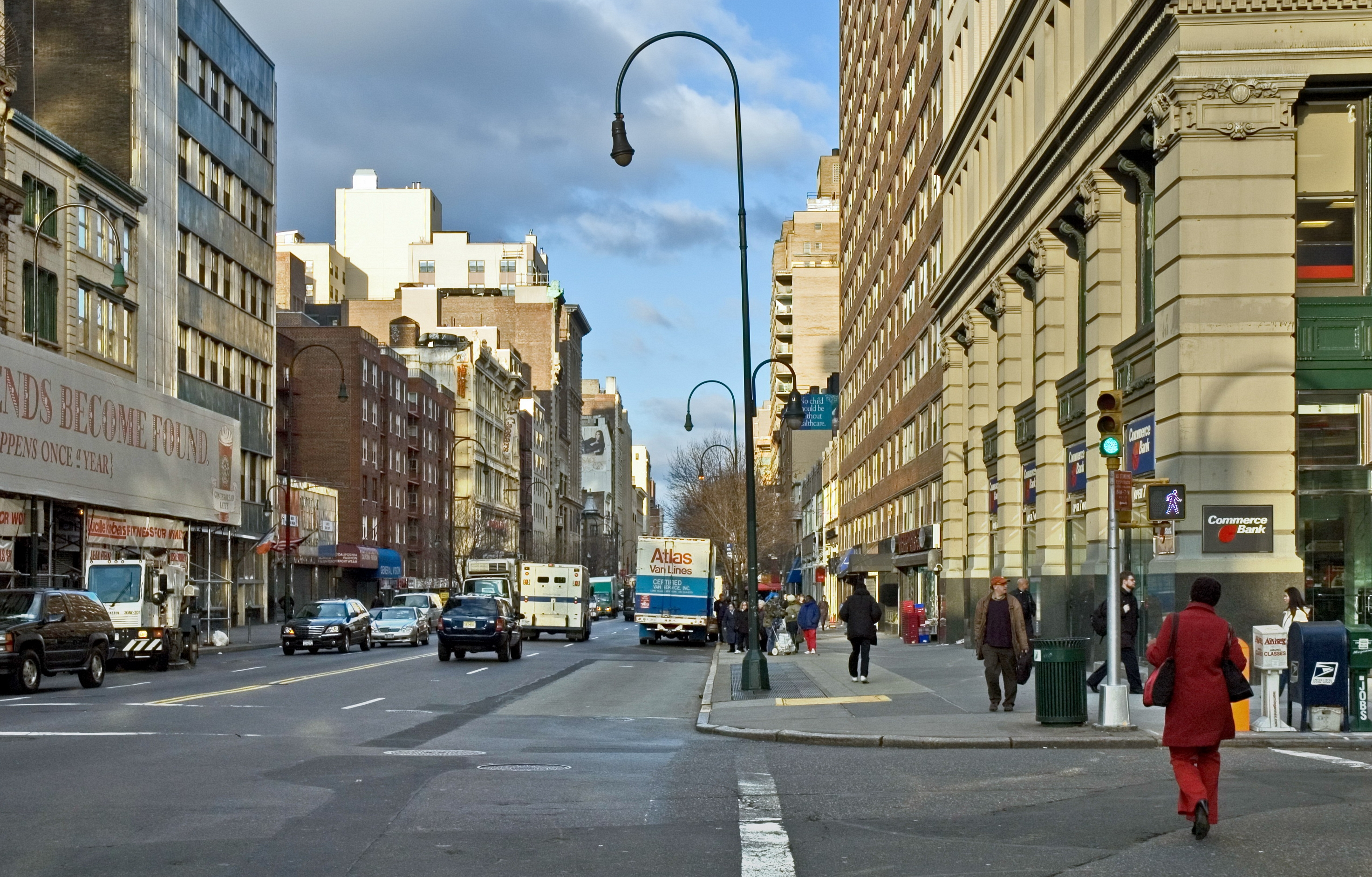 14th Street from the northeast corner of Fifth Avenue looking west. New York City.